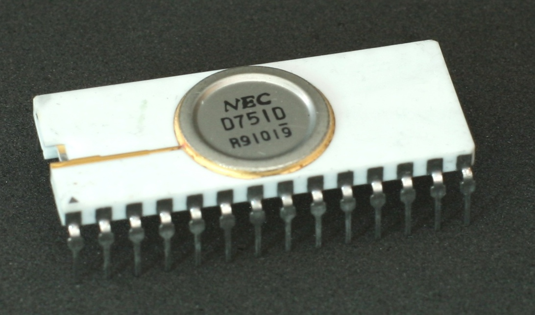 The NEC uPD751 was the 1st Japanese one chip microprocessor.